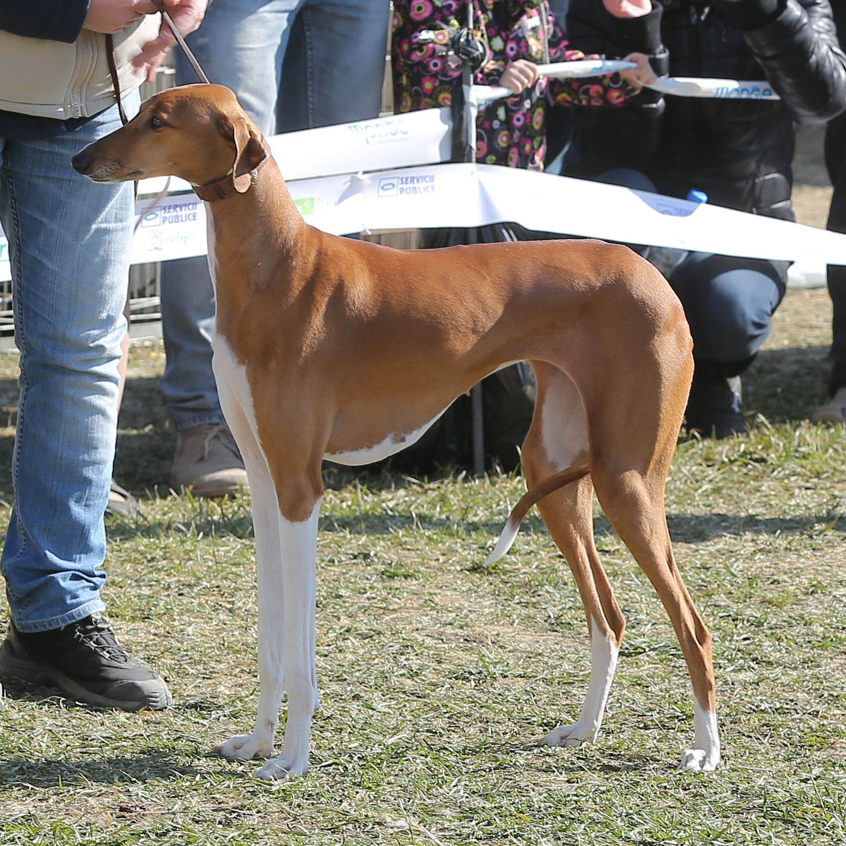 breed: Azawakh, name: Arabica Atletico for Insolens, picture taken in 2015 in Bistrita, Romania